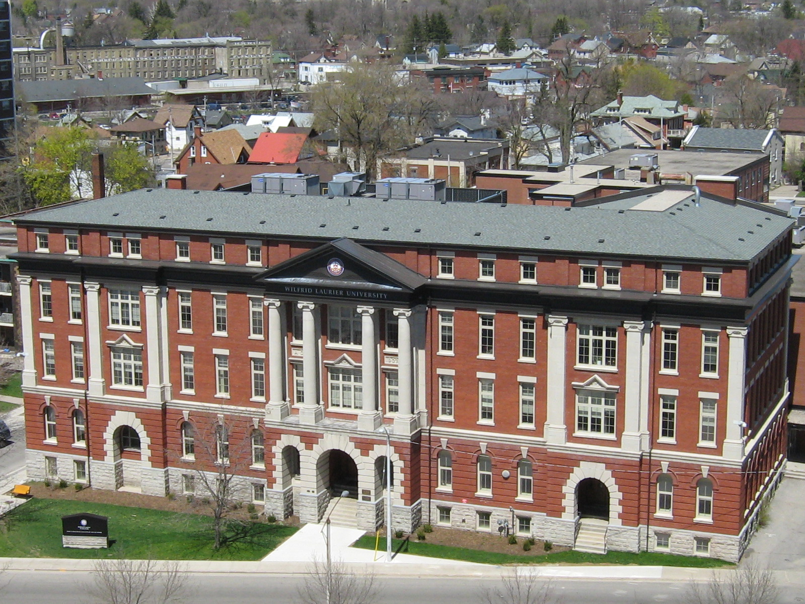 The WLU Kitchener Campus is located at 120 Duke Street West at the corner of College Street in the former St. Jerome's College High School. The building was renovated and opened in 2006.